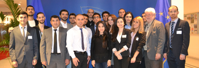 AYAPE interns